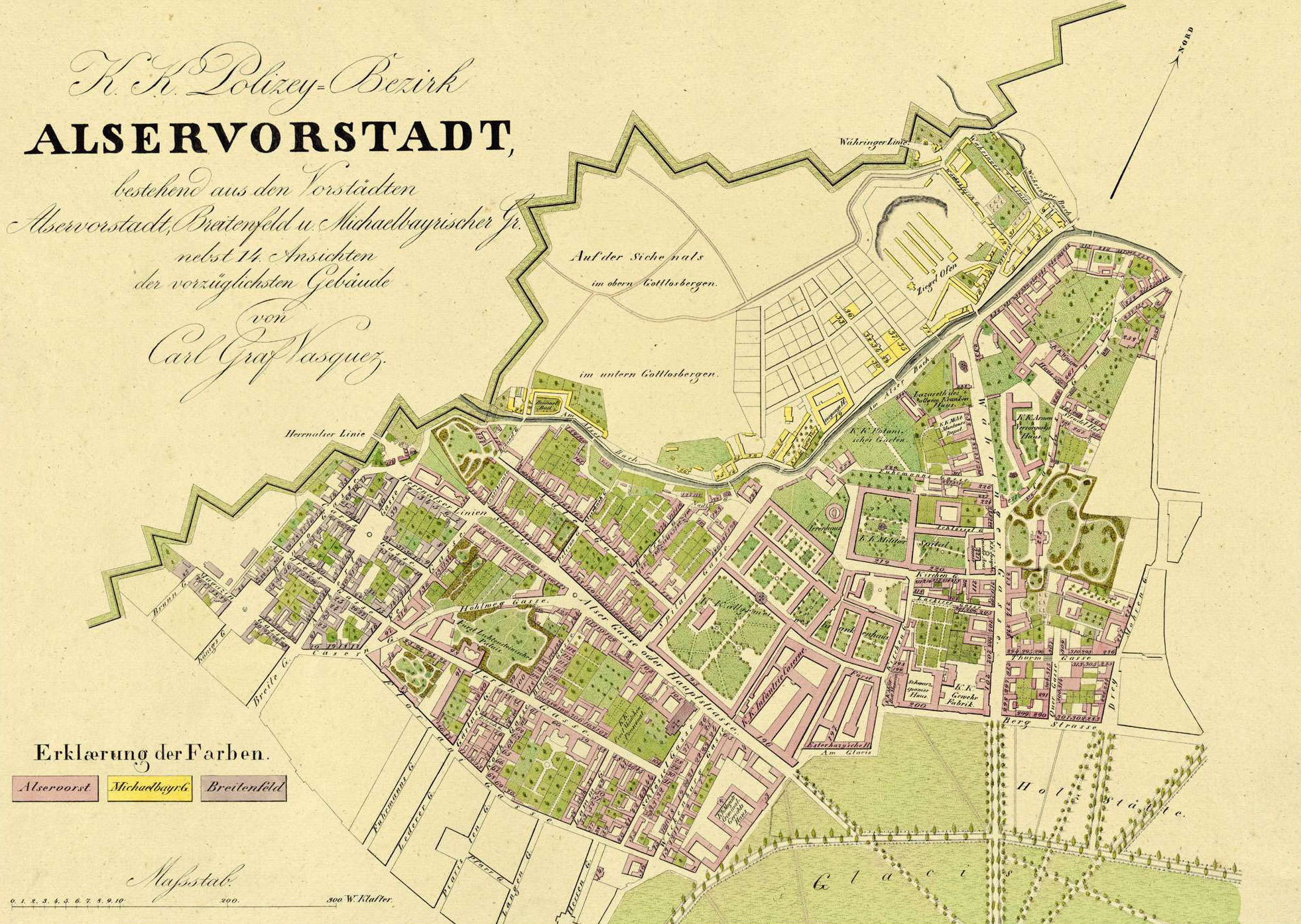 Map of Vienna / Alservorstadt, approx. 1830